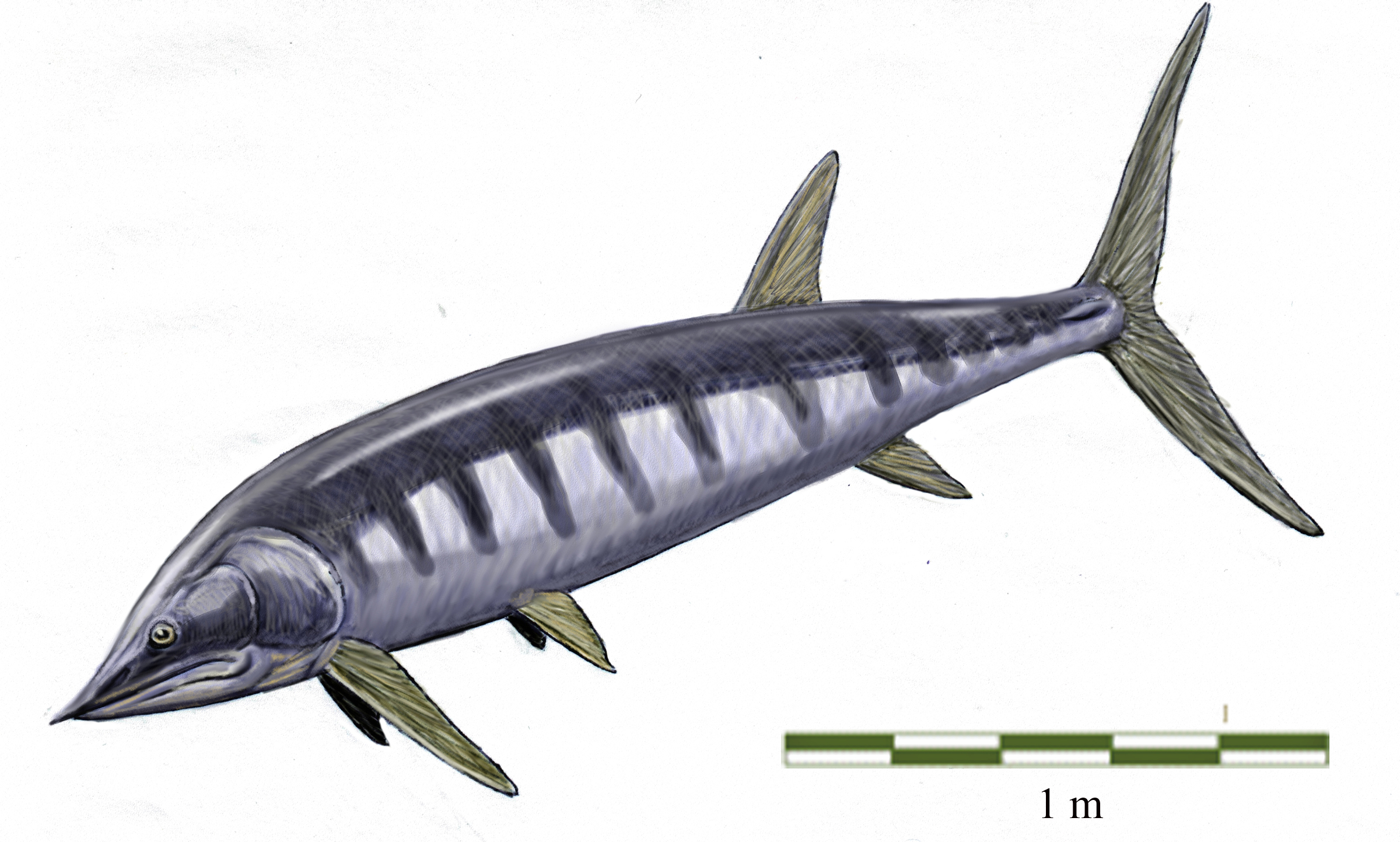 Reconstruction of Orthocormus cornutus, pachycormid fish from Late Jurassic of Europe